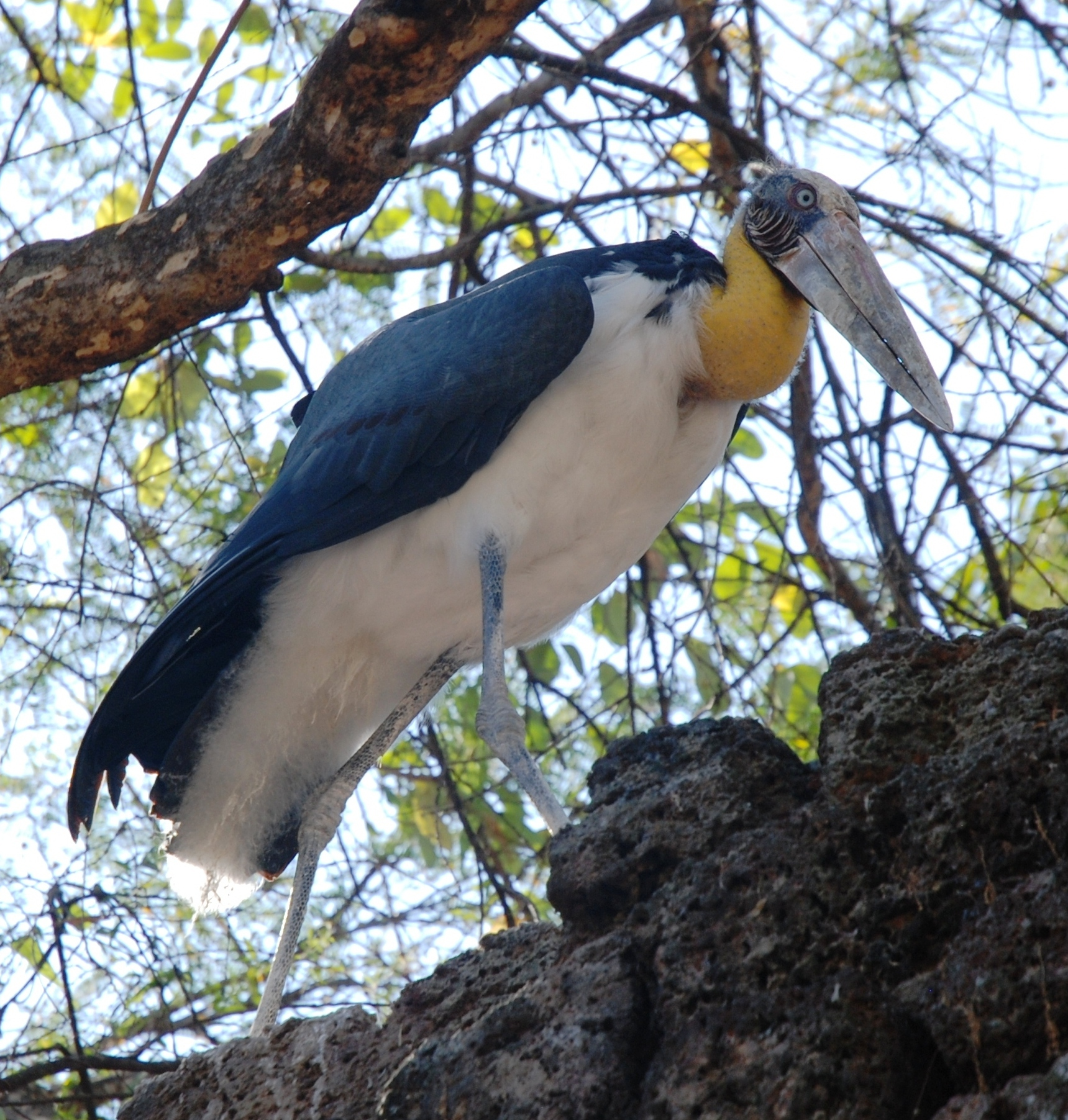 Lesser Adjutant (Leptoptilos javanicus), photo taken in a temple, Vientiane, Laos